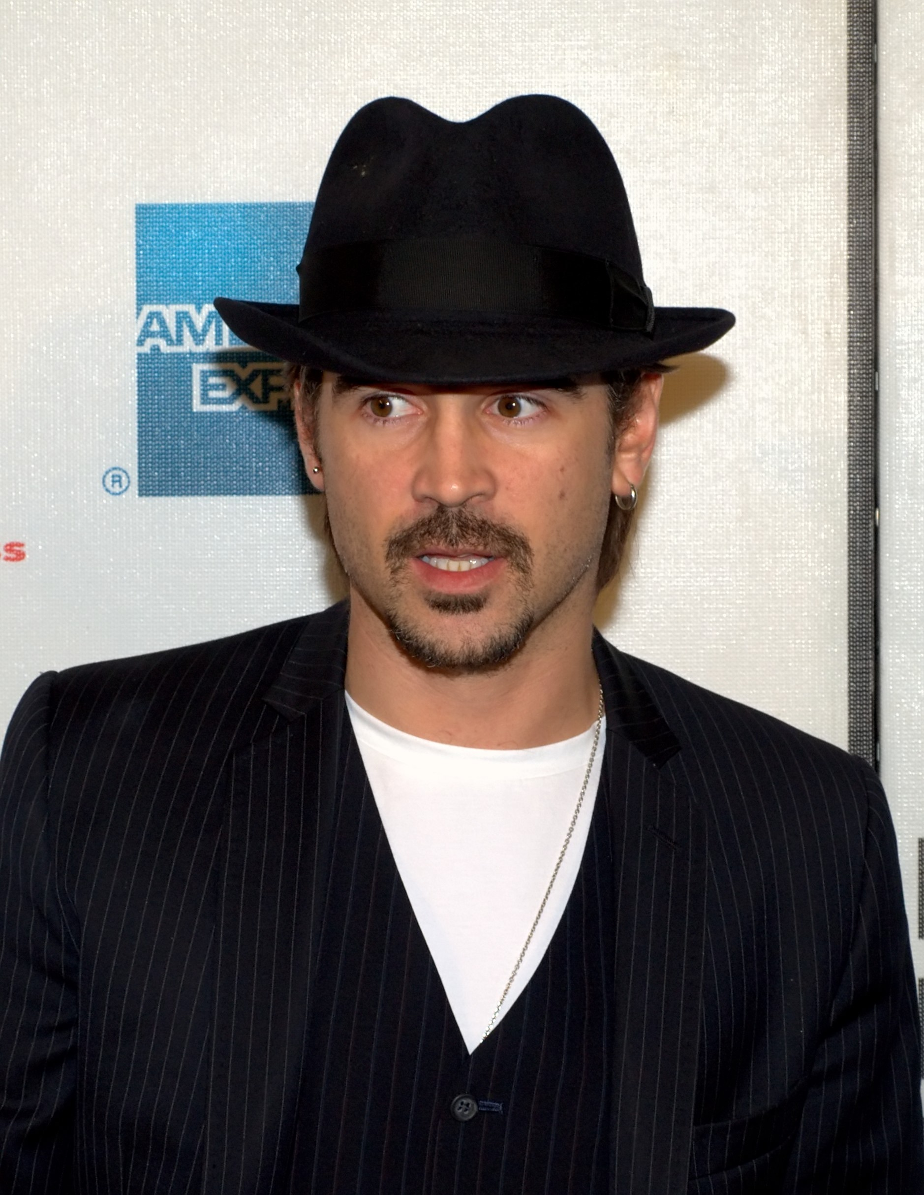 Colin Farrell at the premiere of Ondine at the 2010 Tribeca Film Festival